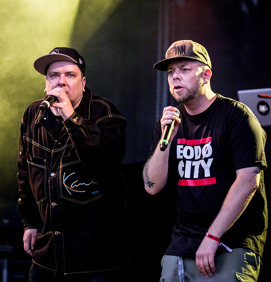 Tungtvann performs at Quart Festival in Kristiansand on 29. June 2016. Lineup:Jørgen Nordeng (vocal)Håvard «Jan Steigen» Jenssen (vocal)